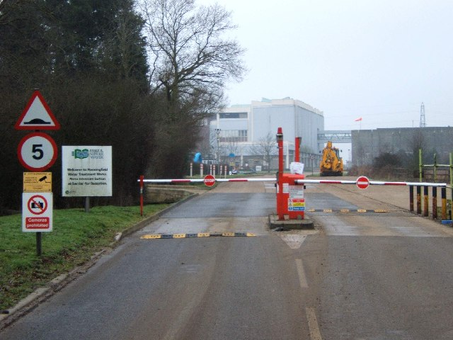 Hanningfield Waterworks. This is the gate to Hanningfield Reservoir water treatment works.